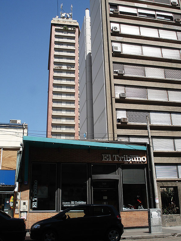 Redacciíon del diario El Tribuno en San Miguel de Tucumán